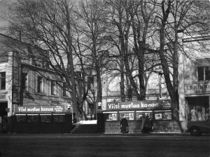 Movie theater Casino (1913–1957) at Yliopistonkatu 29, Turku, Finland, around 1957.